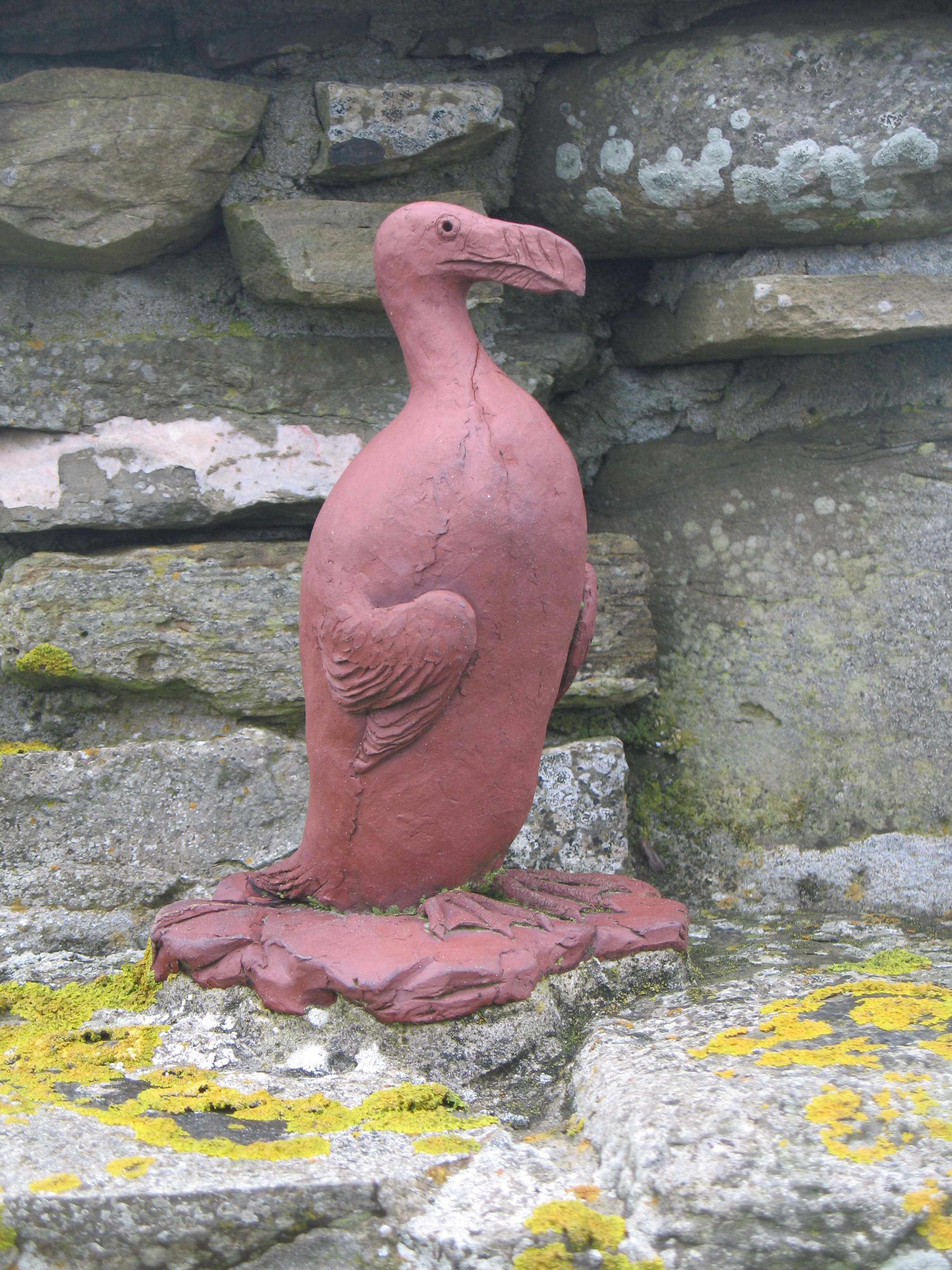 Monument to the last British great auk. A plaque reads Fowl Craig Here lived one of the World's last Great Auks It was shot in 1813 This cairn was built in 1988 by Junior Members of Orkney Field Club To promote care and conservation of our living world See where this picture was taken. [?]